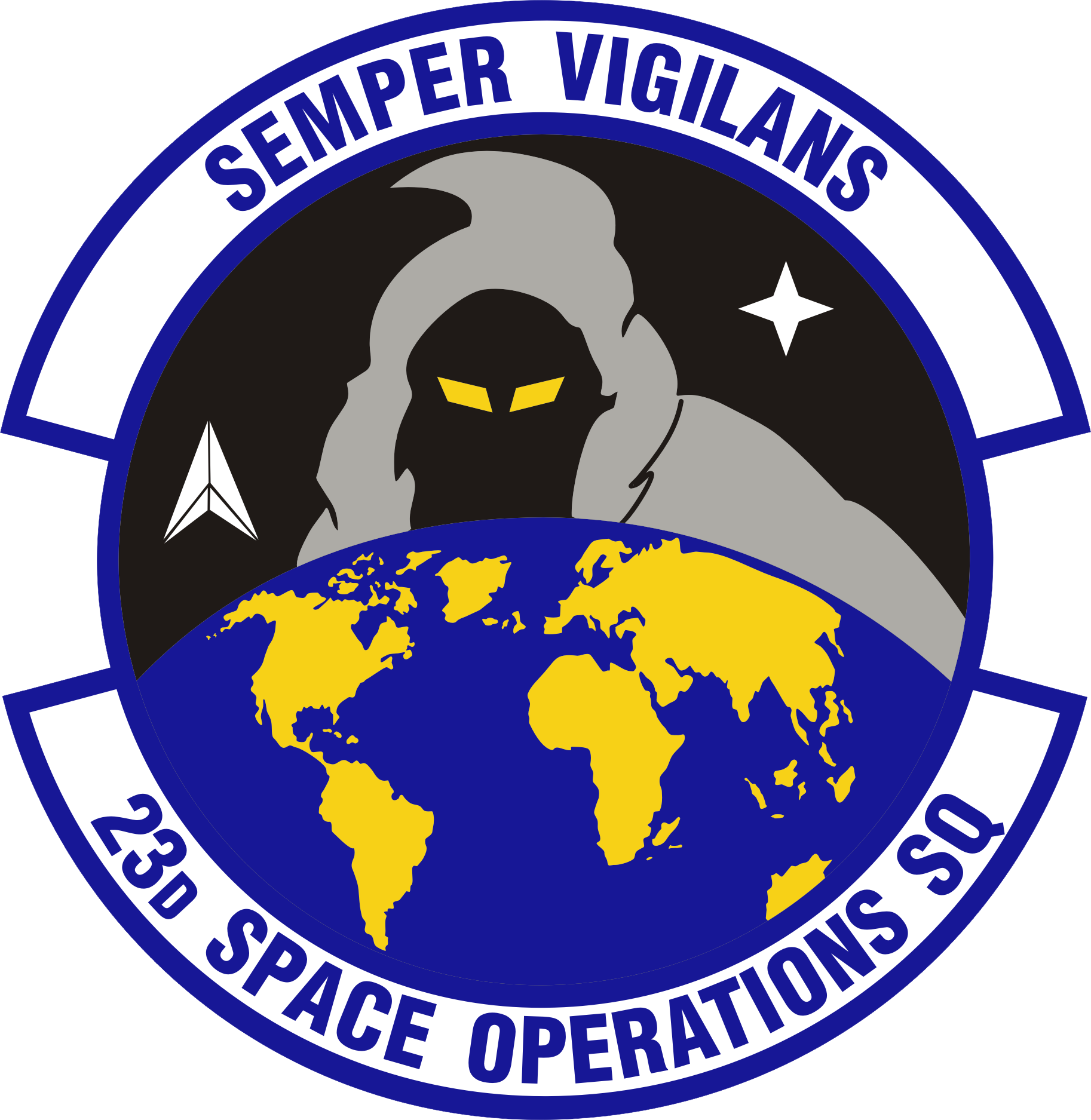 Emblem of the 23d Space Operations Squadron (23 SOPS), a squadron of the United States Air Force, which operates New Boston Air Force Station in New Hampshire, a remote tracking station of the Air Force Satellite Control Network. Blazon: Sable, a demi-globe issuing from base Azure land masses Or and issuant therefrom a spectral figure of the first eyed of the third and garbed Gray between in dexter a flight symbol ascending palewise Argent and in sinister a mullet of four of the like; all within a diminished bordure Blue. Significance: Blue and yellow are the Air Force colors. Blue alludes to the sky, the primary theater of Air Force operations. Yellow refers to the sun and the excellence required of Air Force personnel. The globe in a black disc suggests the earth in space and reflects the squadron's theater of operations. The flight symbol represents a satellite in earth orbit and signifies the unit’s functions of telemetry, tracking, and command of satellites. The spectral figure embodies the ever watchful efforts of the unit personnel in the performance of their duties. The polestar symbolizes true north and implies the squadron's dedication to its mission.